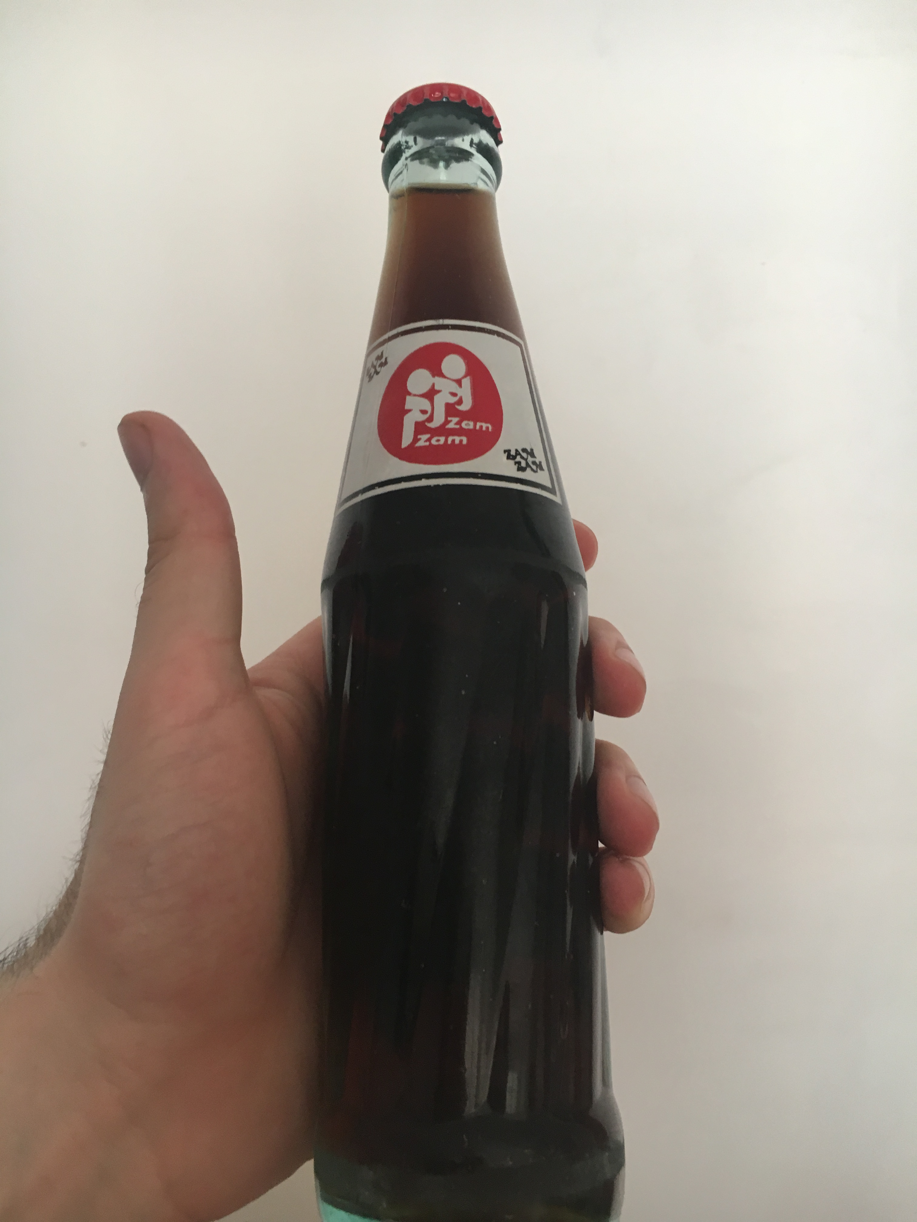 Zam Zam is an Iranian soft drink brand.